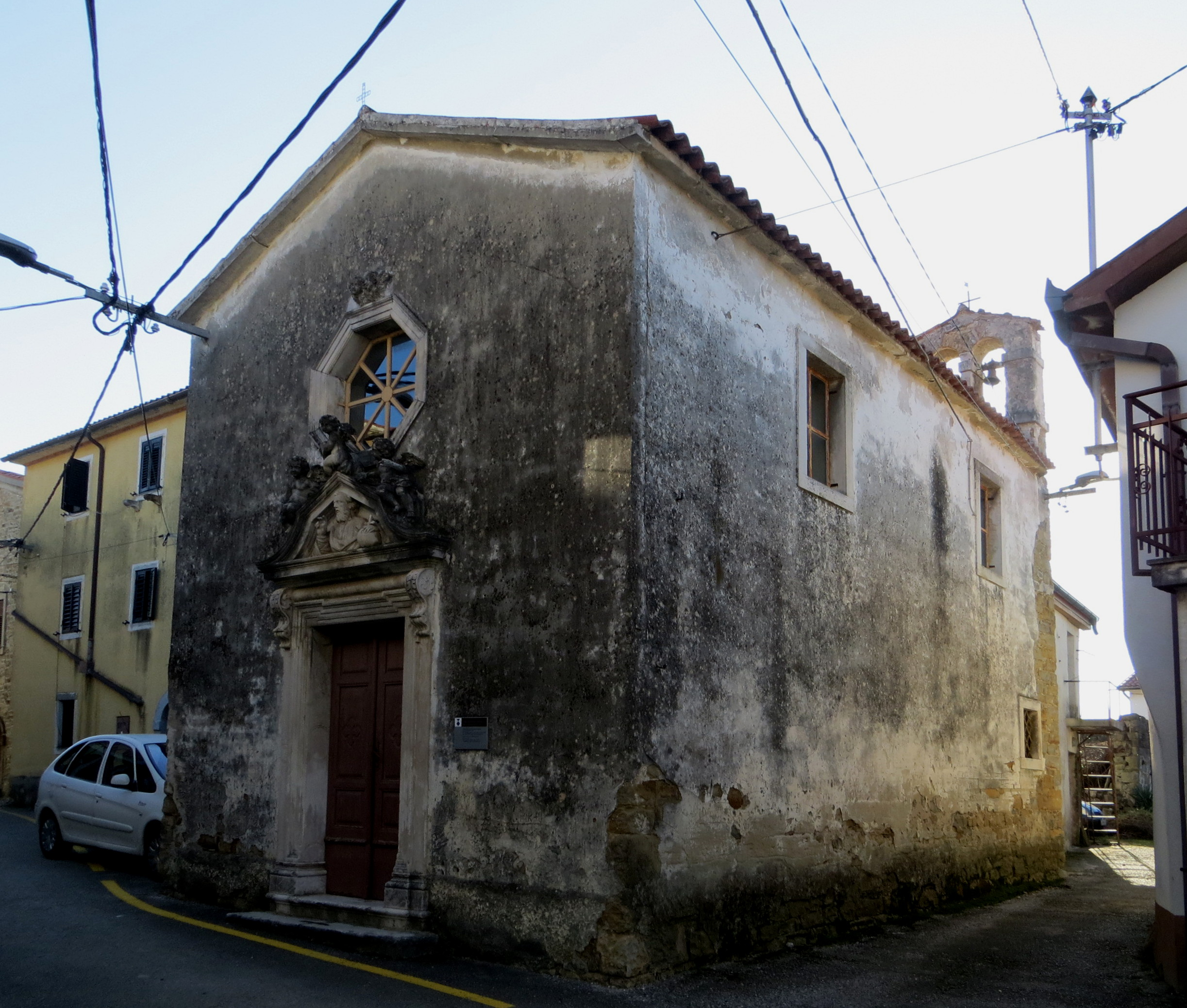 Blessed Deacon Elias Church in Koštabona, Municipality of Koper, Slovenia